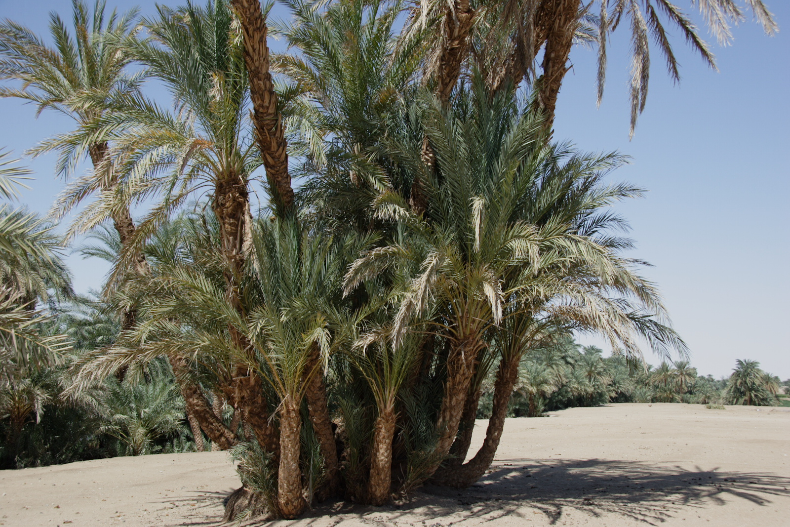 Gau palm tree (جاو) with multiple offshoots from its axillary bud called Bu'rah or Hufrah (بؤرة or حفرة) in Dar al-Manasir, Northern Sudan (c) GFDL David Haberlah (Homepage of David Haberlah, )